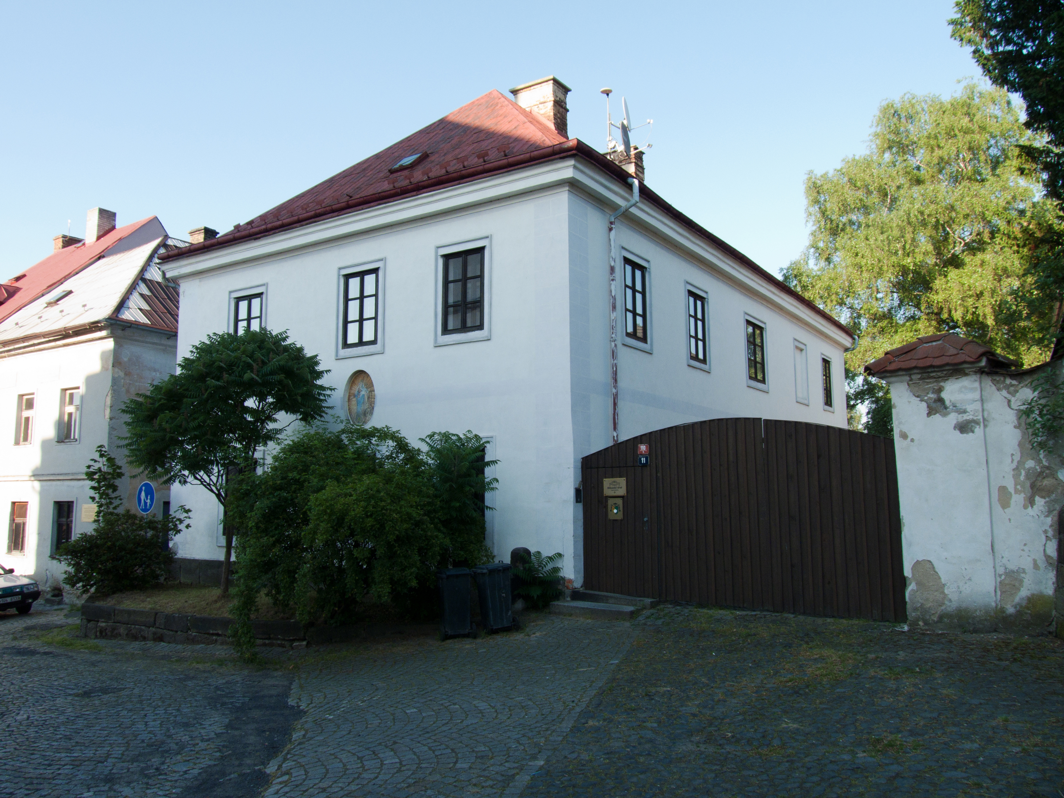 Dean's office in the town of Česká Kamenice, Ústí nad Labem Region, Czech Republic